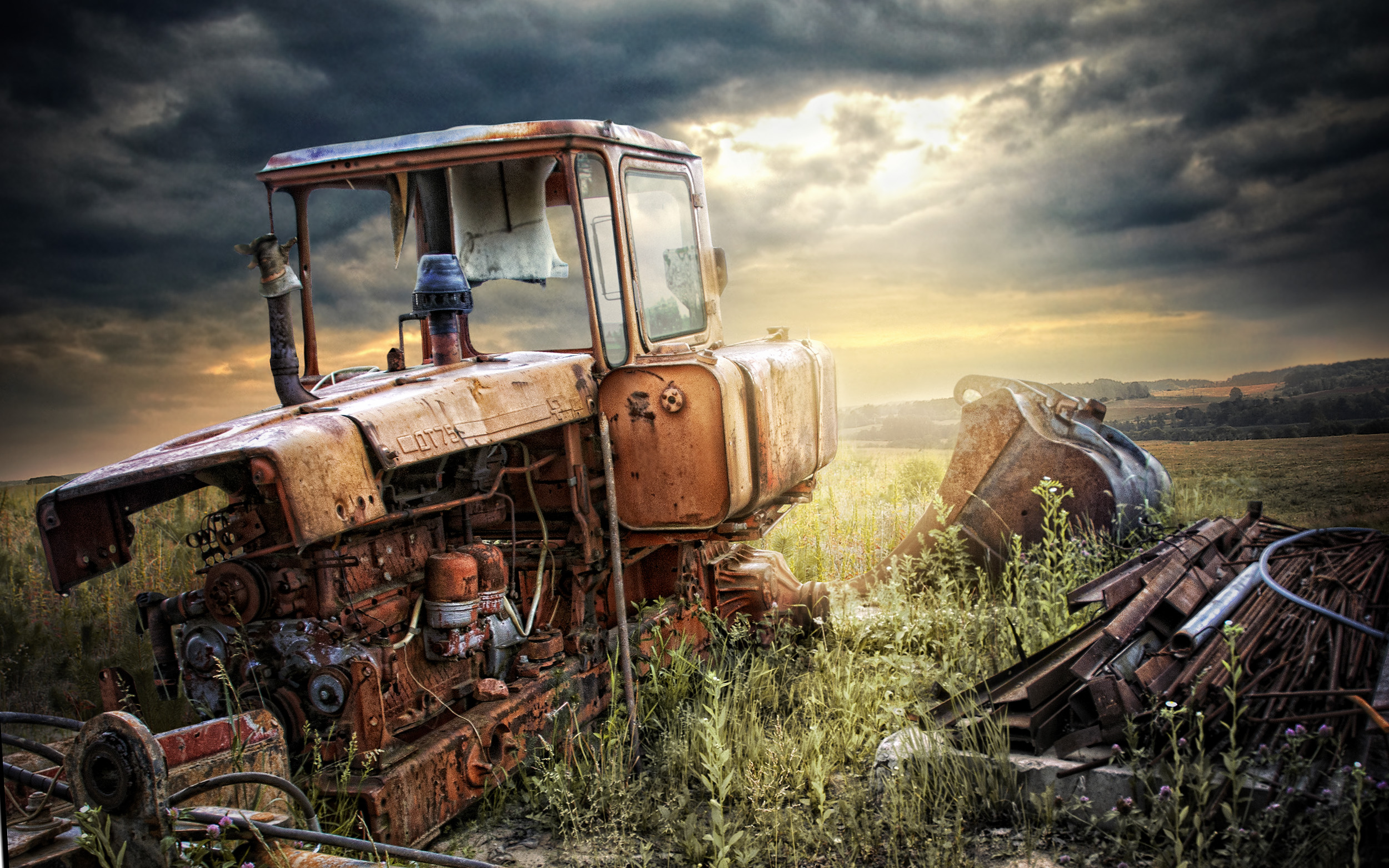 USSR made tractor DT-75 photographed in HDR